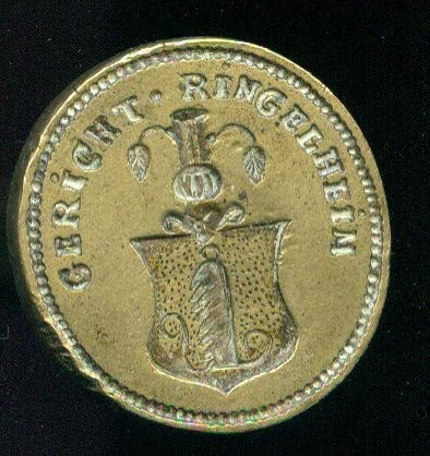 Scan of a seal of a law-court of Ringelheim